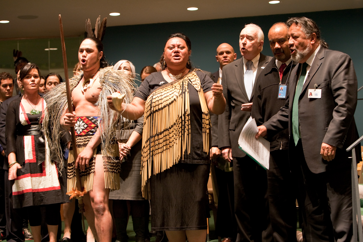 New Zealanders celebrate their country's endorsement of the United Nations Declaration on the Rights of Indigenous Peoples in 2010.